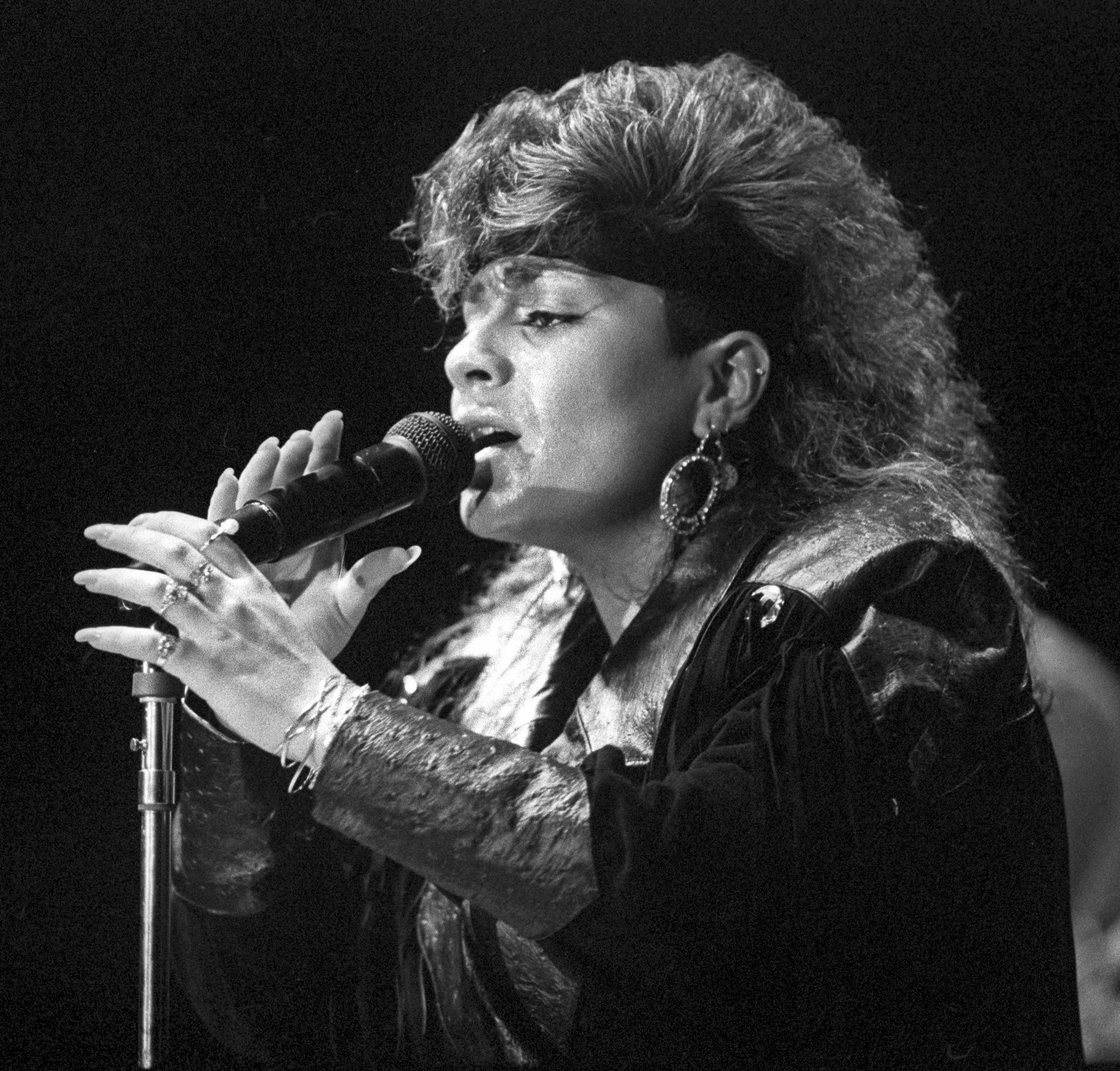 Lisa Lisa performs with Full Force and Cult Jam at Bailey Hall, Cornell University, Ithaca, New York in April 12. 1987. Black and white original.